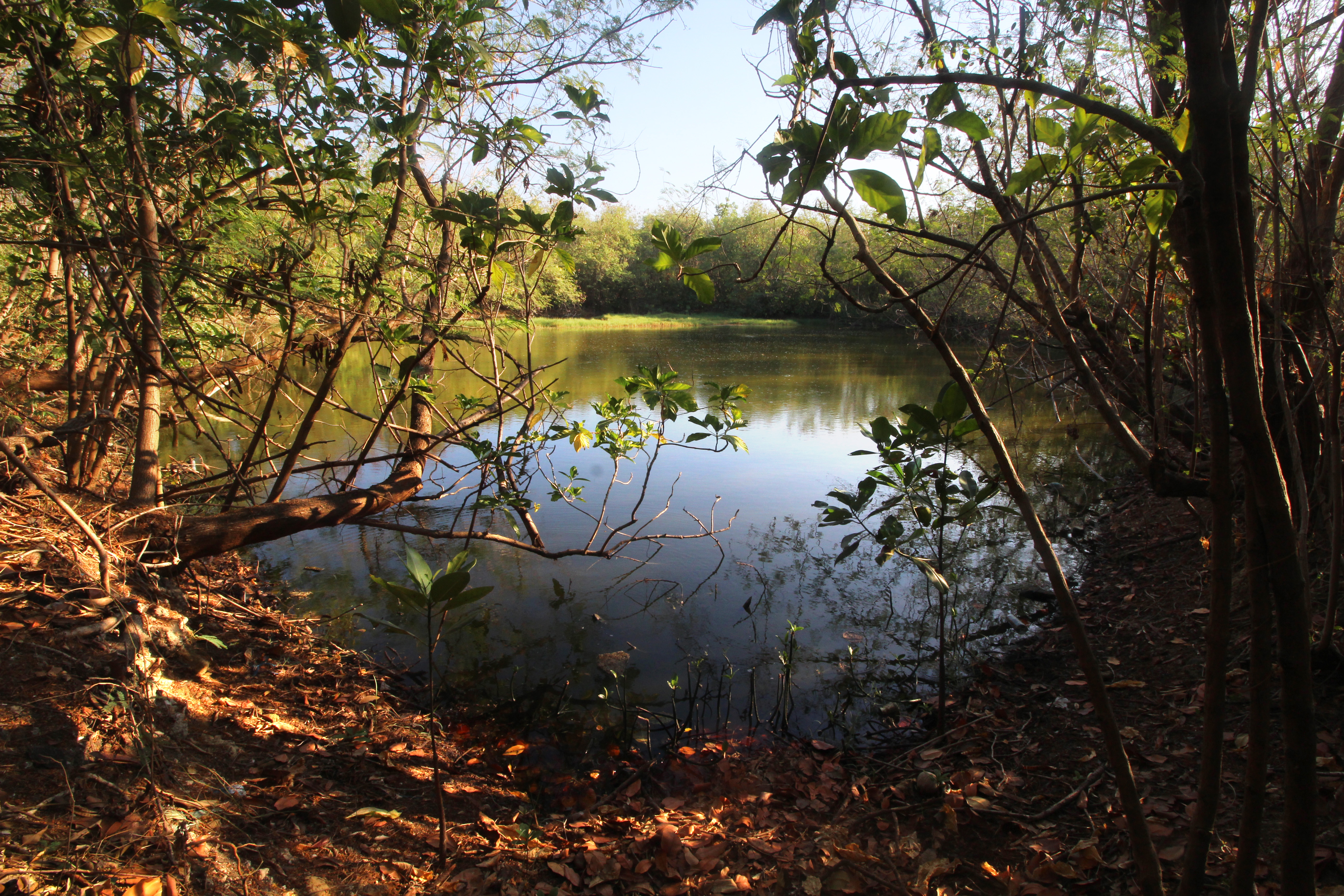 The Las Piñas-Parañaque Critical Habitat and Ecotourism Area (LPPCHEA) oasis for migratory birds